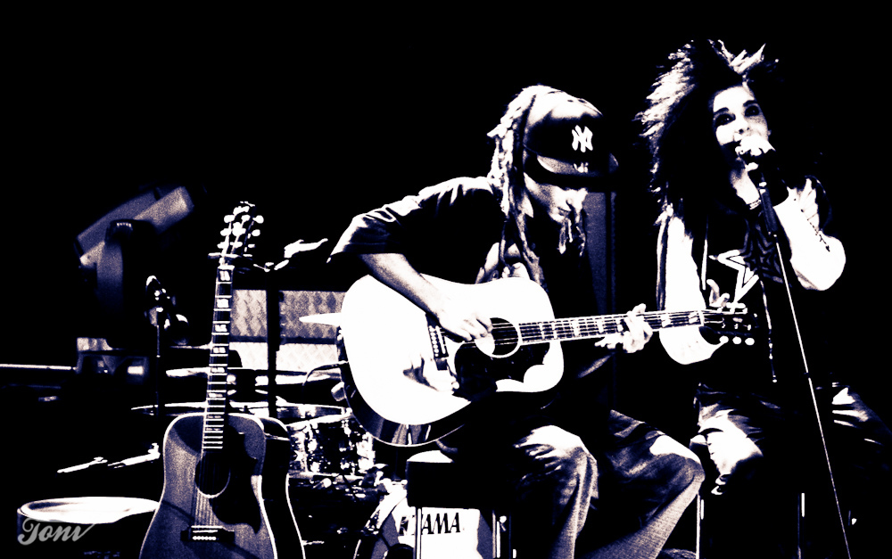 Tokio Hotel in Barcelona.